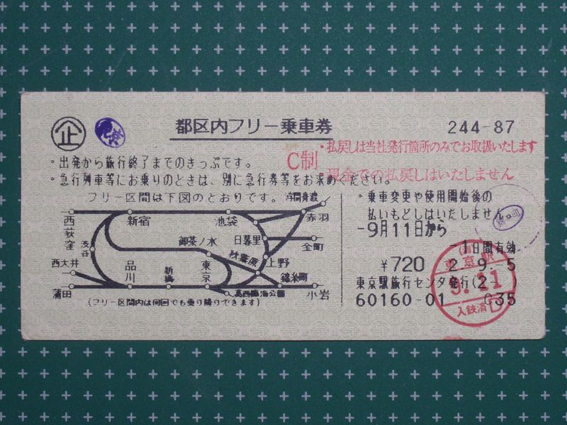 Tokunai freelance ticket